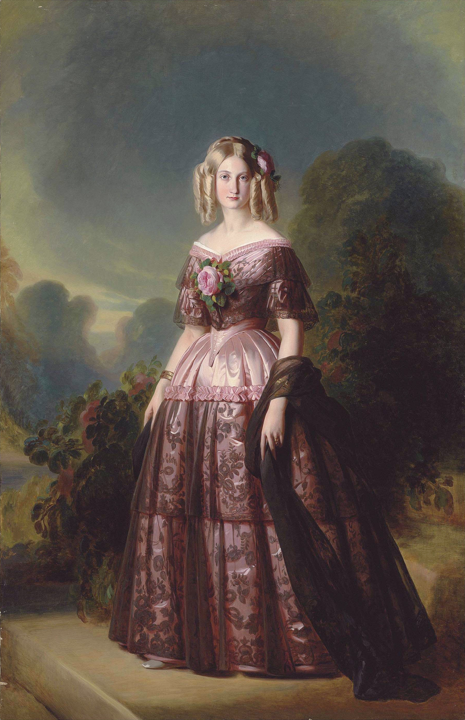 Princess Maria Carolina Augusta of the Two Sicilies